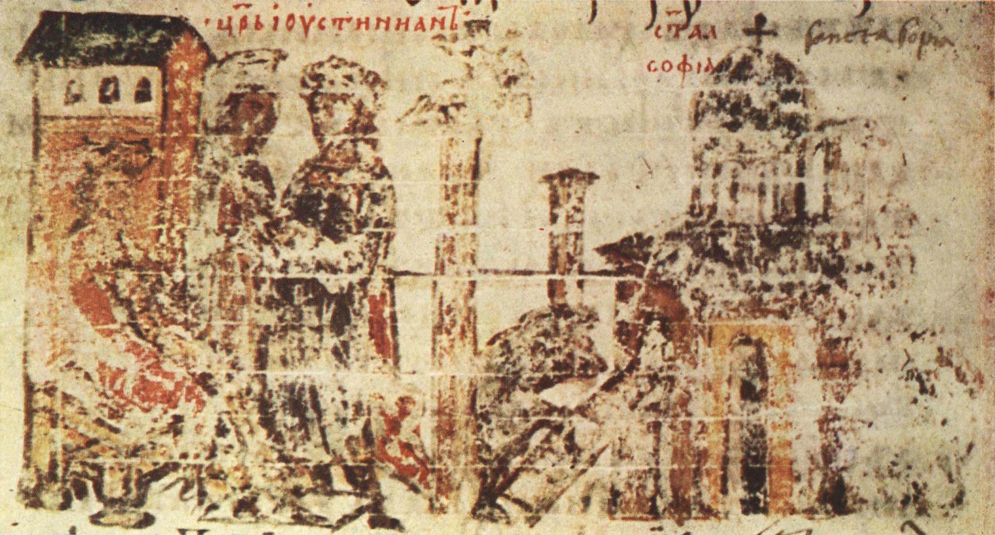 Miniature 38 from the Constantine Manasses Chronicle, 14 century: Construction of Hagia Sophia during the reign of emperor Justinian.